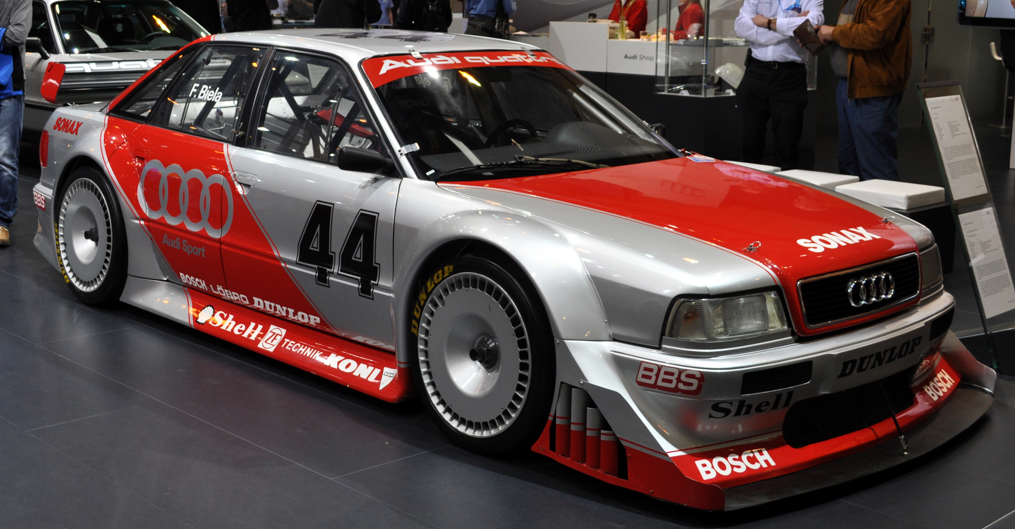 Audi 80 quattro 2,5 DTM (1993) Unraced prototype at the Technoclassica 2011 in Essen